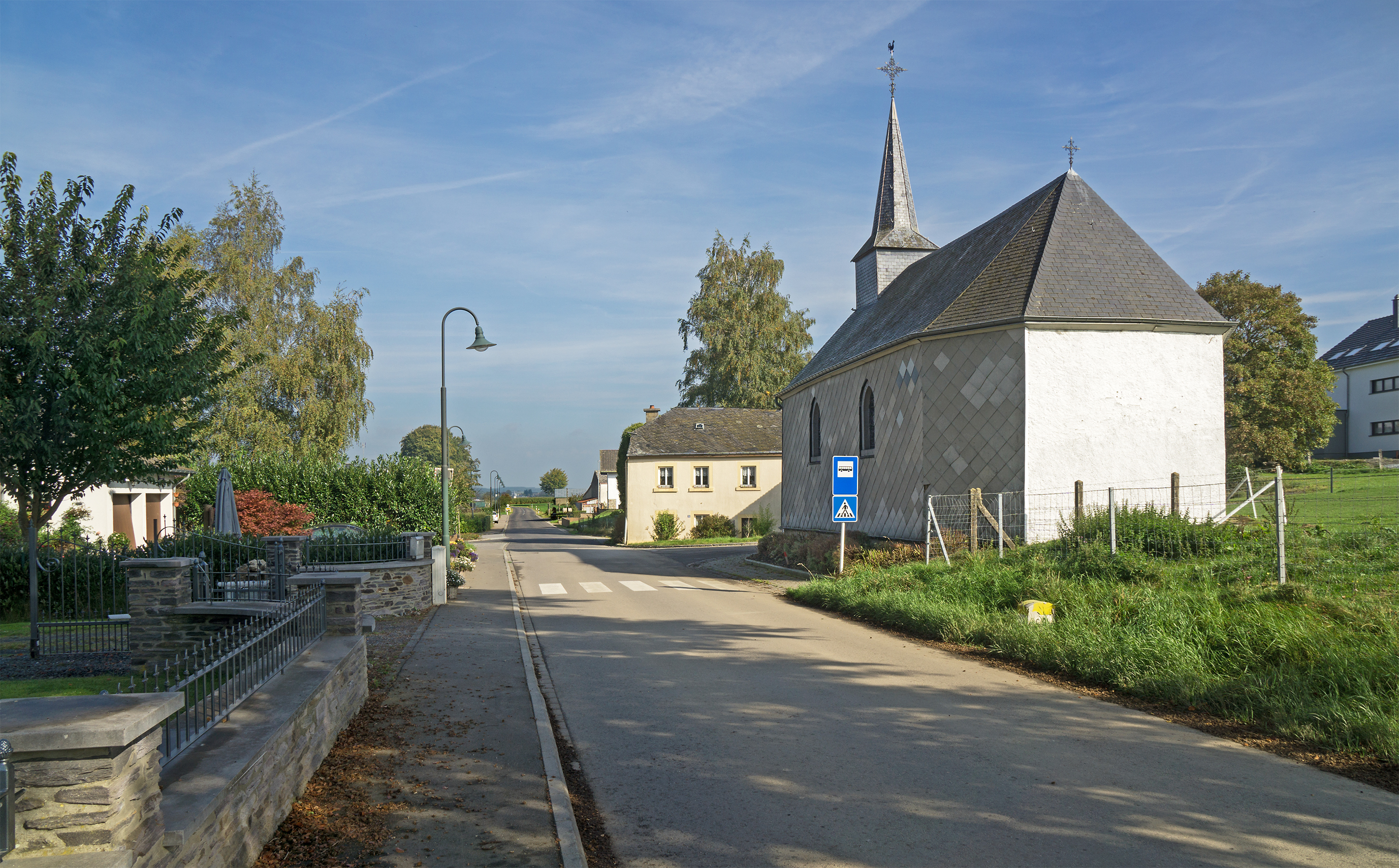 Troine-Route with the chapel